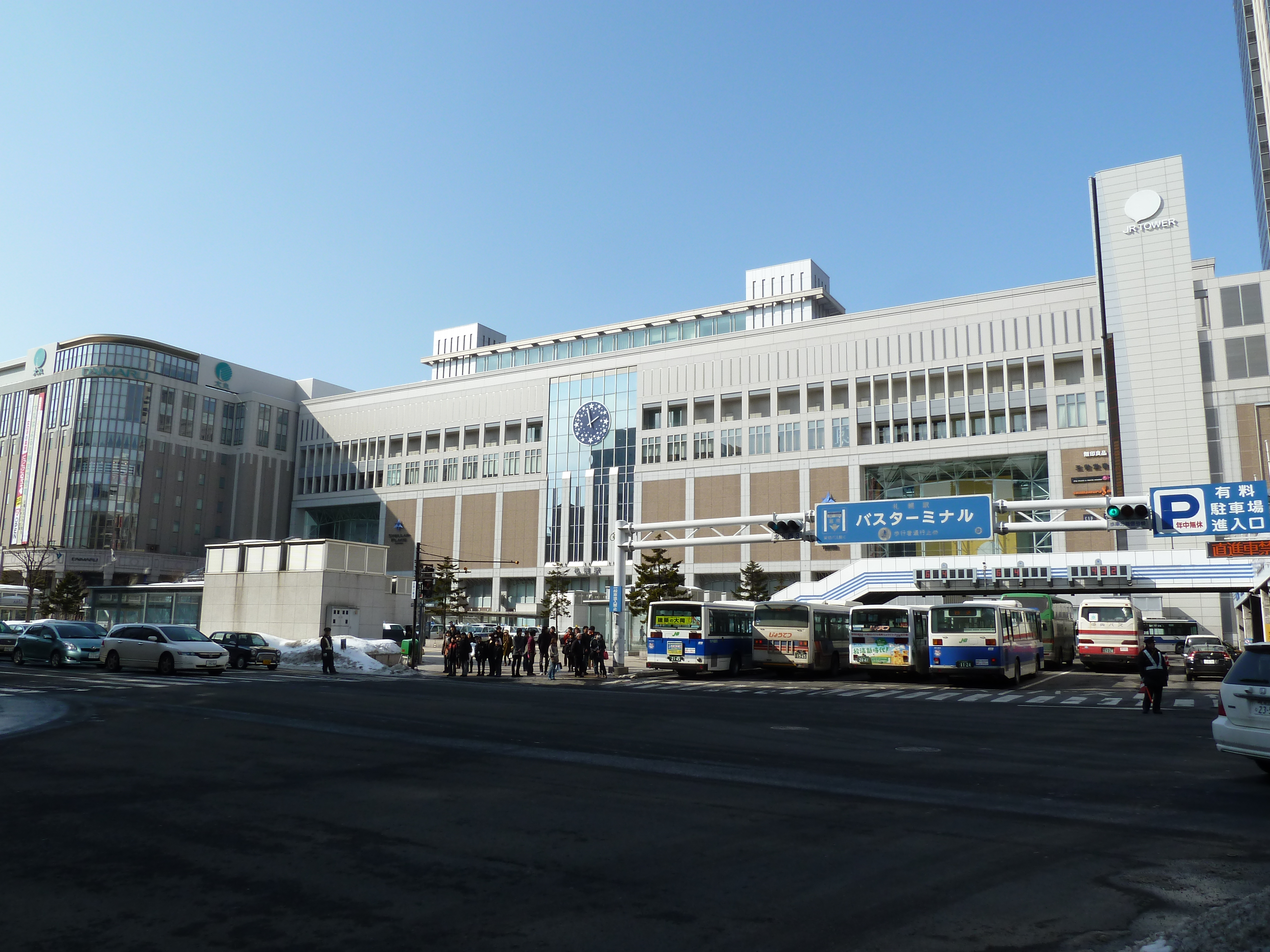 札幌駅南口前